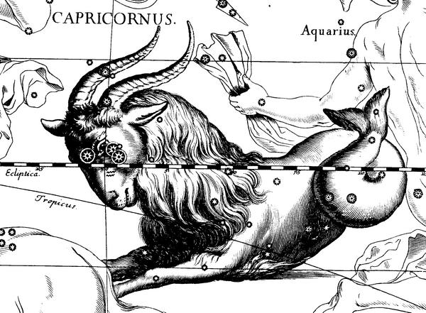 The Capricornus constellation from Uranographia by Johannes Hevelius. The view is mirrored following the tradition of celestial globes, showing the celestial sphere in a view from "ouside"